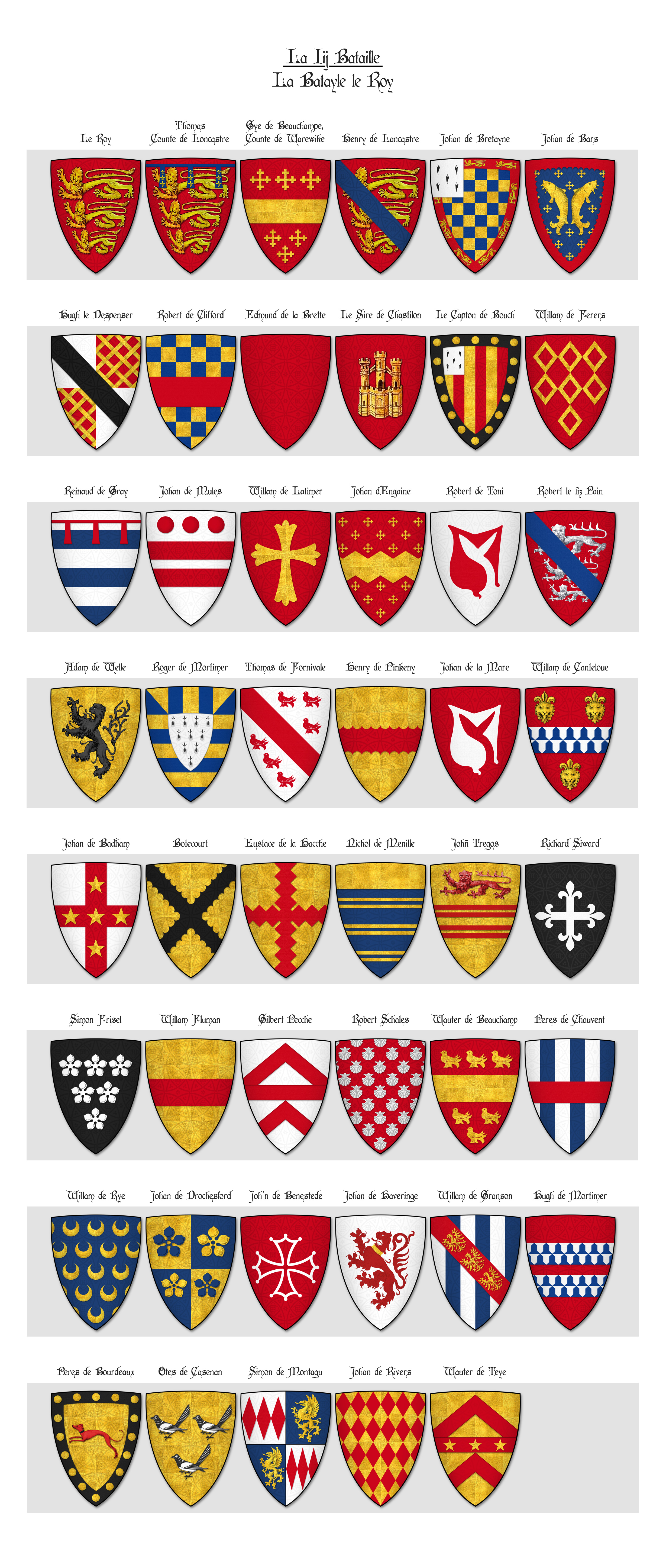 The Falkirk Roll of Arms - Panel 3 - La Bataille le Roy SOURCE: Gough, Henry (1888) Scotland in 1298. Documents Relating to the Campaign of King Edward the First, London: Alexander Gardner, pp. 131-157 ISBN: 0853880107.